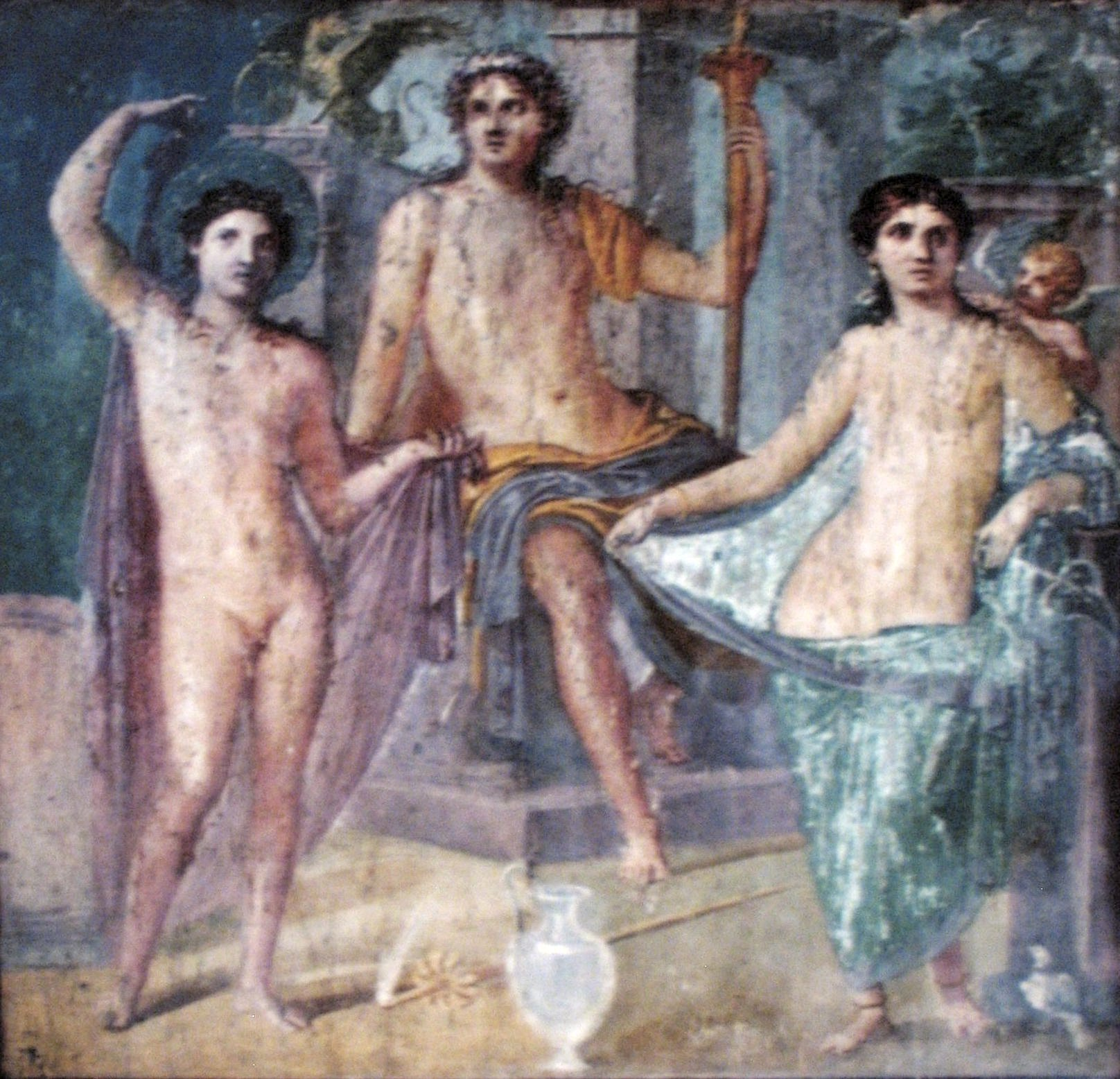 Fresco from Pompeii - Apollo enthroned with Phaeton/Hesperus, Venus and Cupid